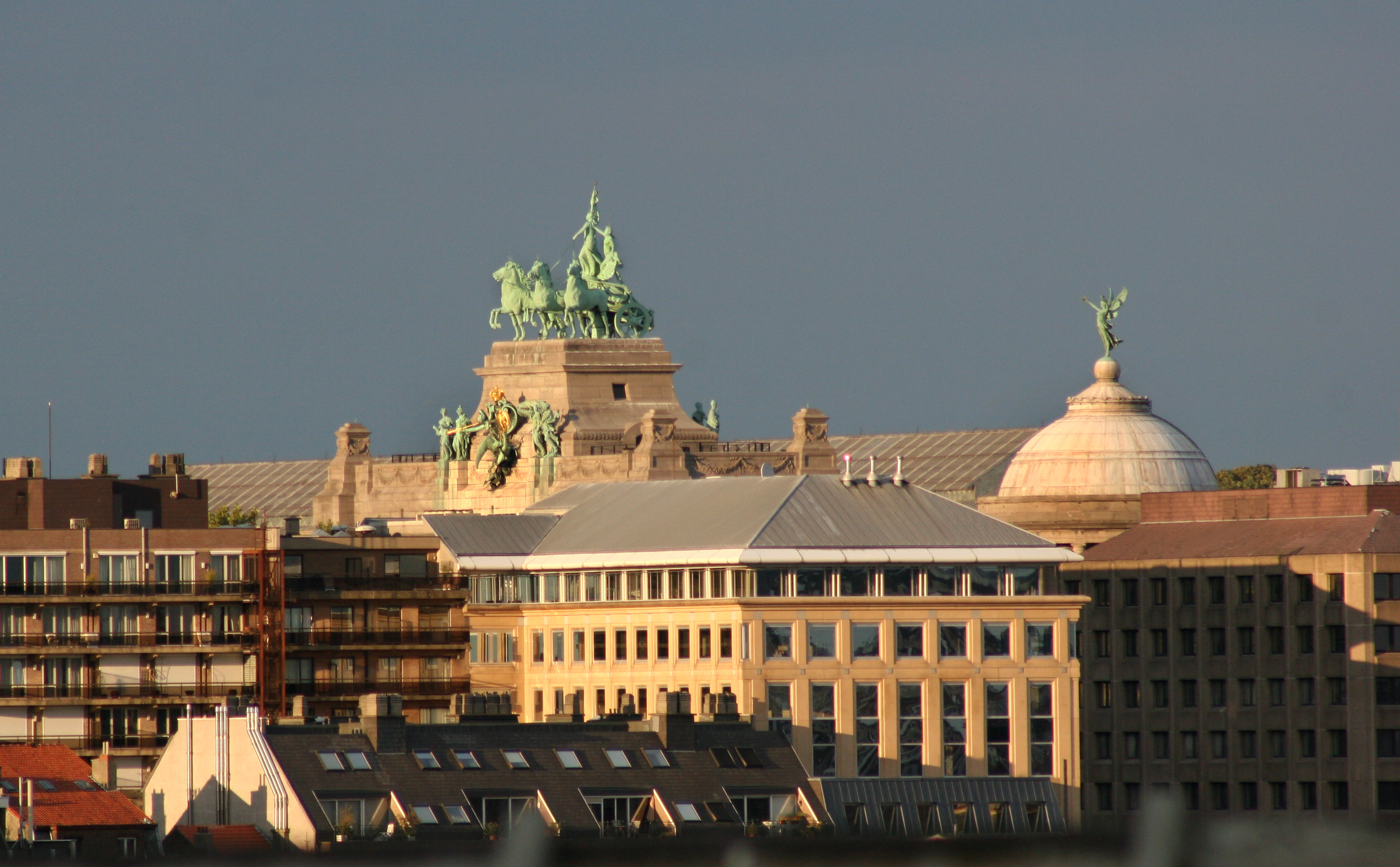 The top of the Jubelpark - Cinquantenaire museum in Brussels, taken over the roofs of the city